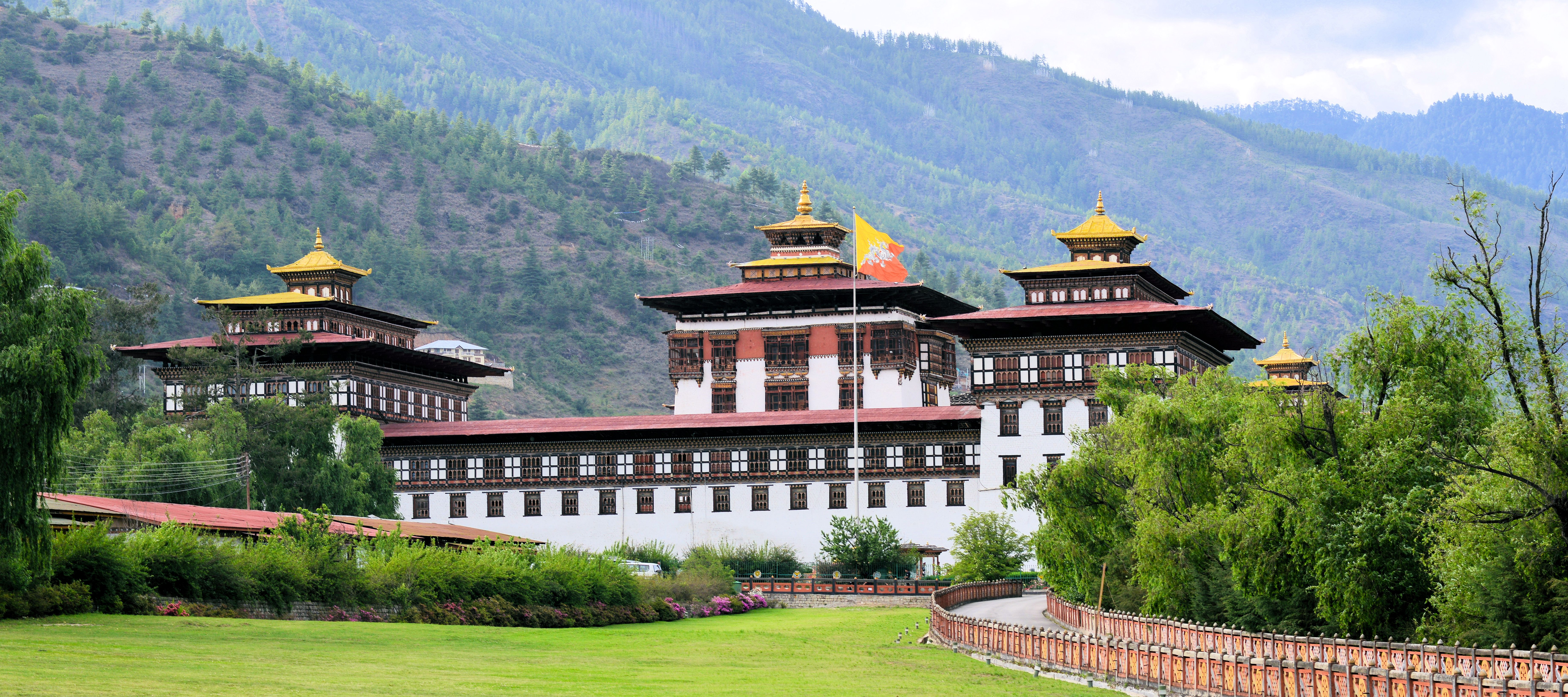 Tashichödzong (Southern end)